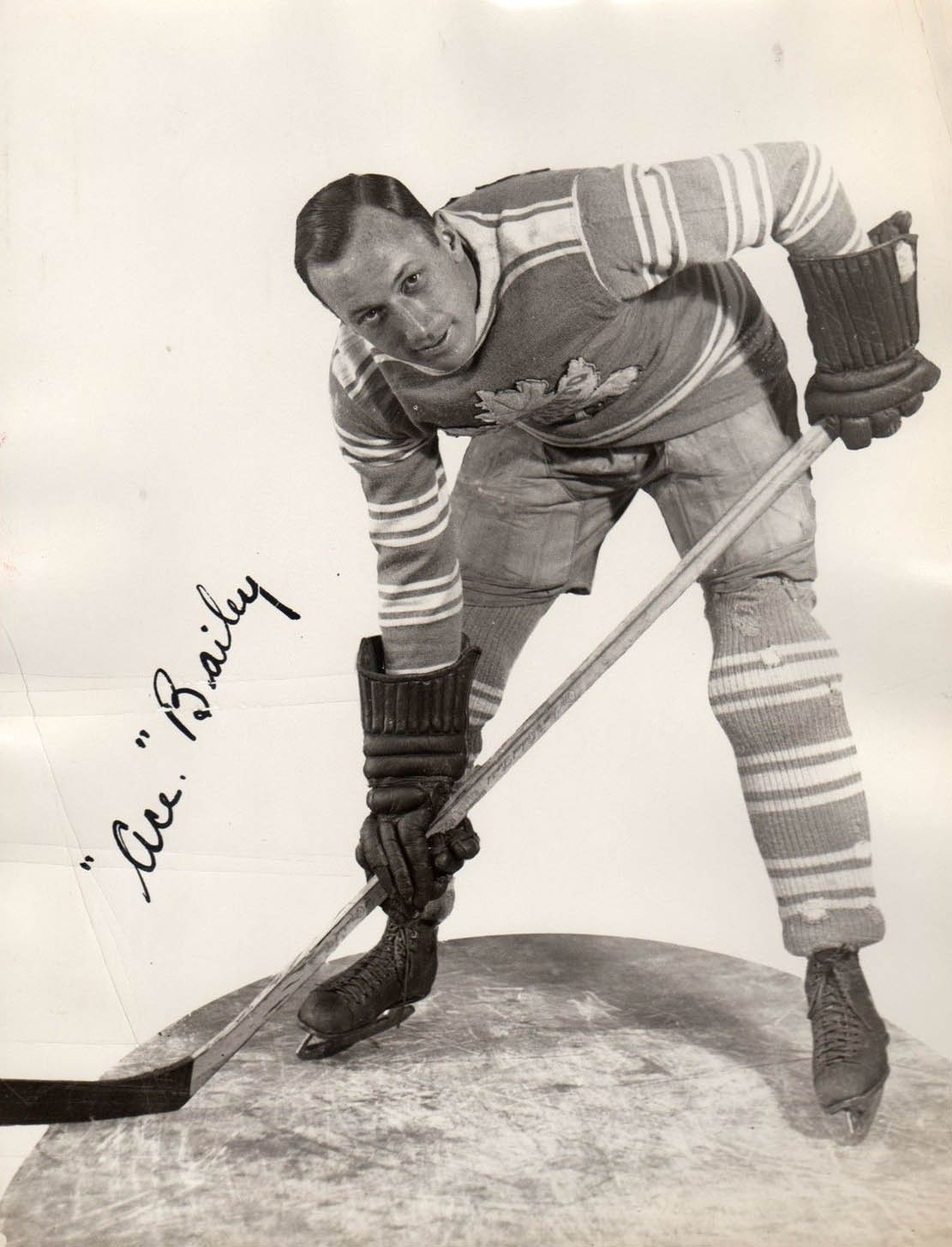 Signed photo of Ace Bailey, a professional NHL player who spent his career with the Toronto Maple Leafs (1926-33). The photo was taken for the 1933-34 season.